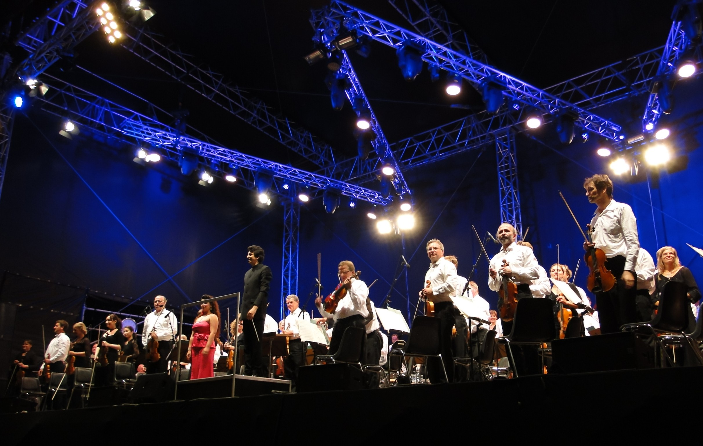 Dresdner Philharmony 2012